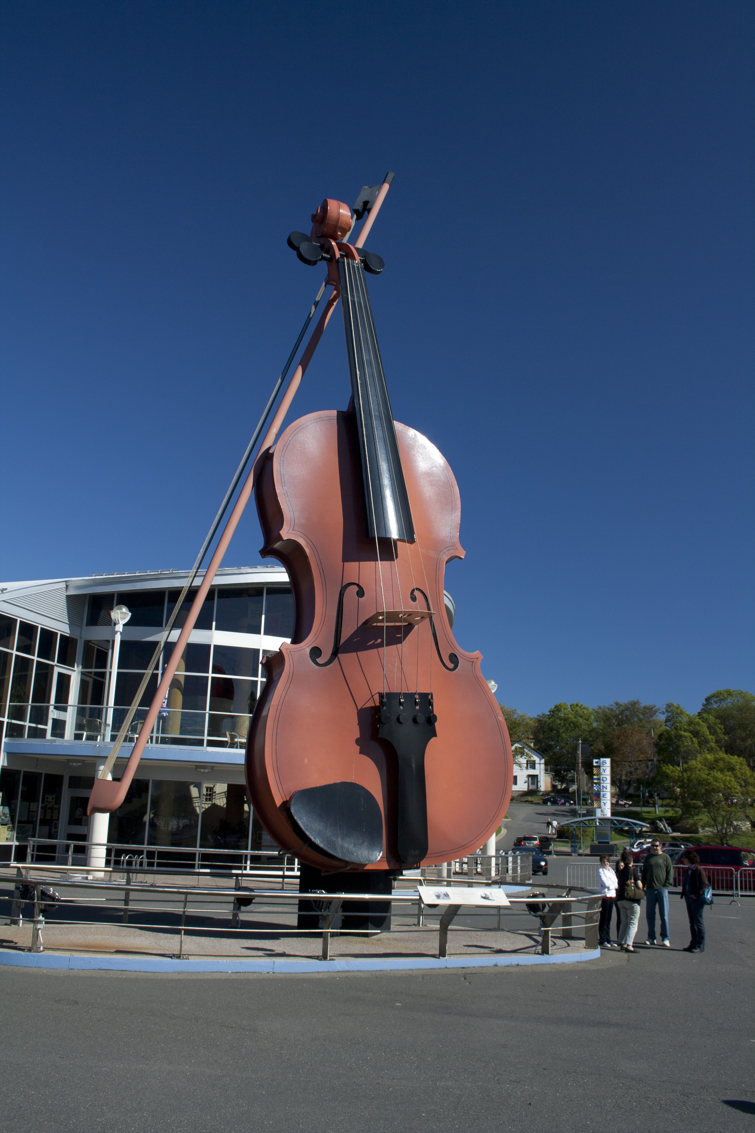 World's largest fiddle on the Sydney waterfront in Cape Breton, Nova Scotia, Canada. "In 2005, Sydney unveiled a ten-ton tribute to the folk music and traditions of the province’s Celtic community. Designed and constructed by Cyril Hearn, the fiddle and the bow reach a height of 60 feet and can be seen by the incoming cruise ships in the harbour. Made of solid steel, the giant fiddle was dubbed FIDHEAL MHOR A’ CEILIDH or the 'Big Fiddle of the Ceilidh'. Ceilidh is a Gaelic word which translates into 'visit'." World's Largest Fiddle